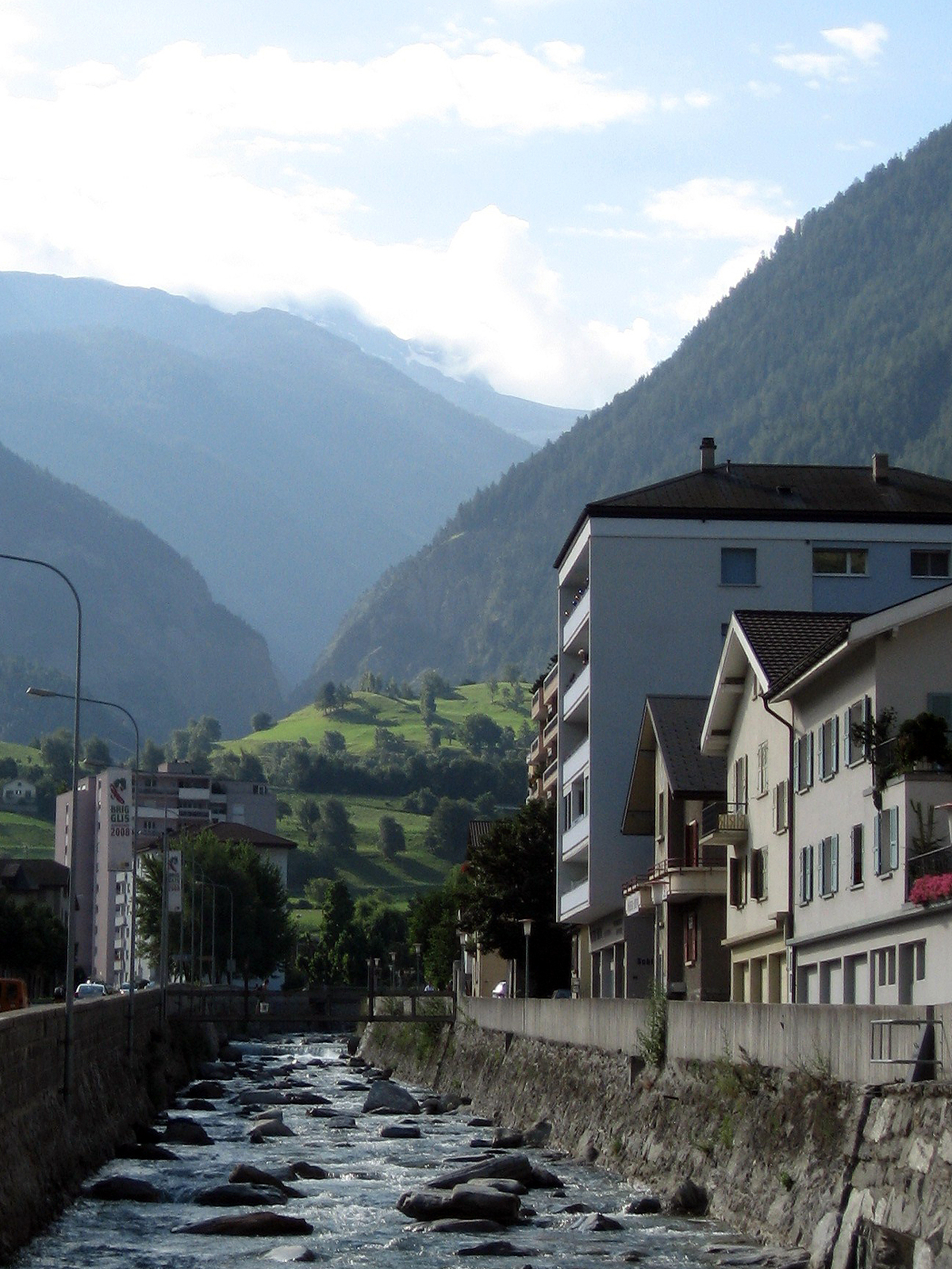 The river Saltina, contained and hemmed in by embankments in what I began to think of as a very Swiss sort of way. Not far from this spot, there is a... I don't know the right words, a water-level-reading station. Thingie. There was a little glass booth where you could see a paper drum and a pen that created an automatic line graph of the river level, going back maybe a couple of weeks. This was attached to a long steel arm hanging out over the water which took the water level reading by means of radar, according to a helpful and informative sign. Which was really pretty cool, as I kind of thought radar existed solely for the purpose of hindering road trips. Also, I suspect that one of the ways in which I am readily identifiable as an East Coast girl is the ease which with I am thrilled by the sight of mountains hiding their heads in the clouds. Oregon always gets me this way too.